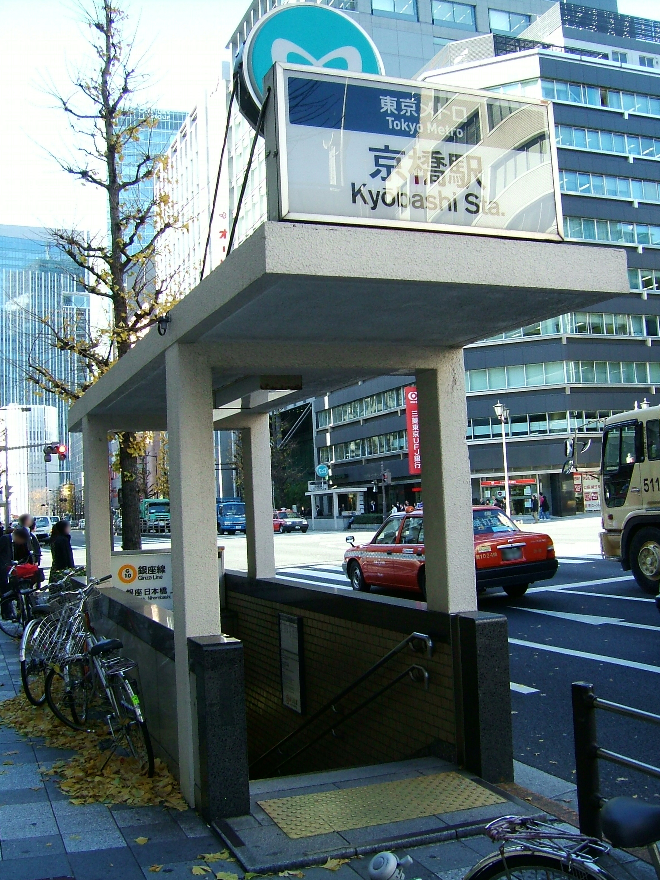 Tokyo Metro Ginza Line Kyobashi Station 1st entrance